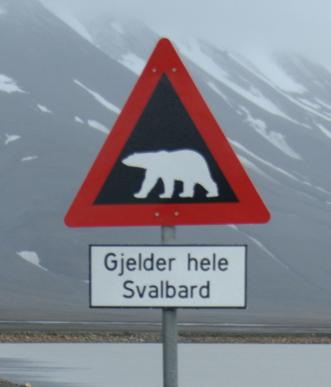 A Norwegian road sign used on Svalbard to warn about the presence of polar bears. The text in Norwegian reads: Applies to the whole of Svalbard. The current verion of the road sign, a "negative" of the old sign. This sign has a white polar bear on black background, where the older sign depicts a black bear on white background. This is the only norvegian warning sign featuring a black background.